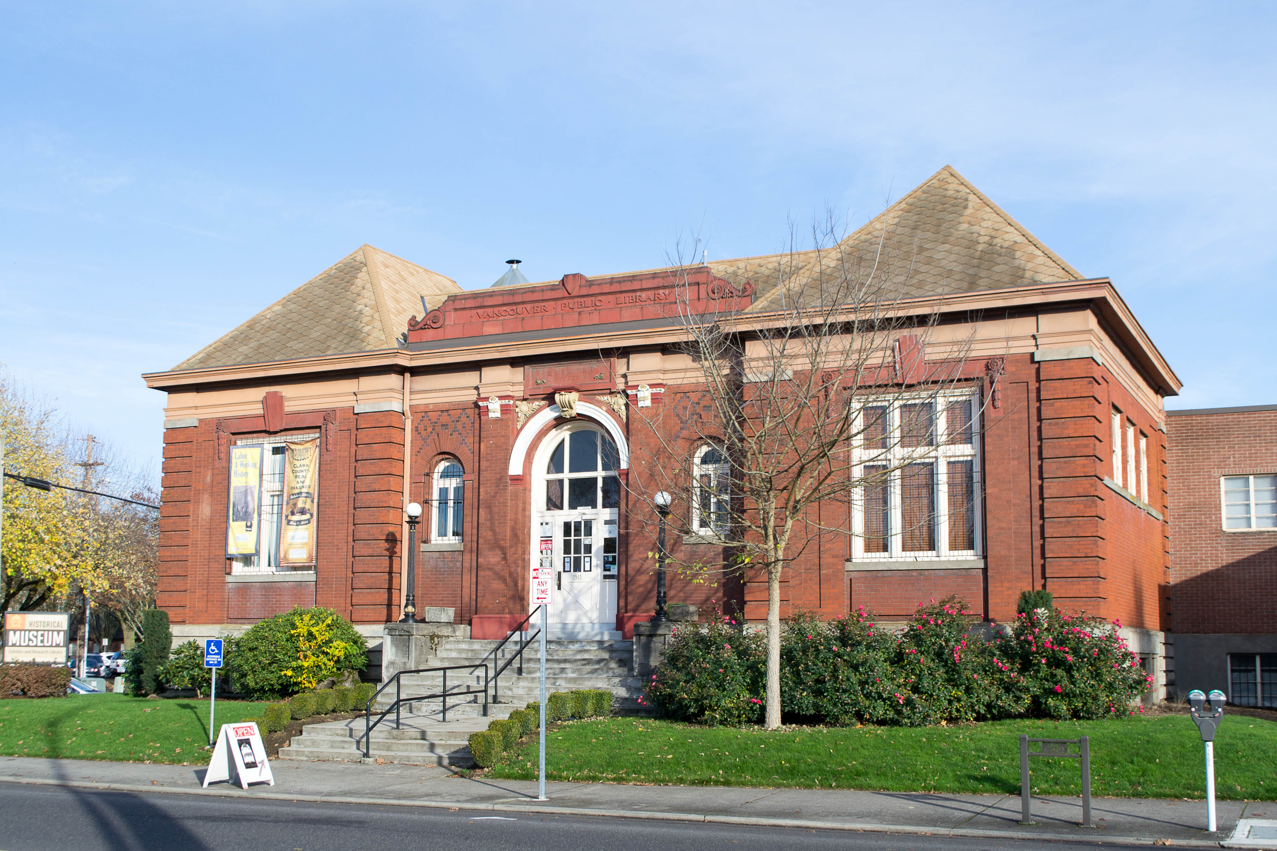 The Clark County Historical Museum, located in a former Carnegie Library, in Vancouver, Washington